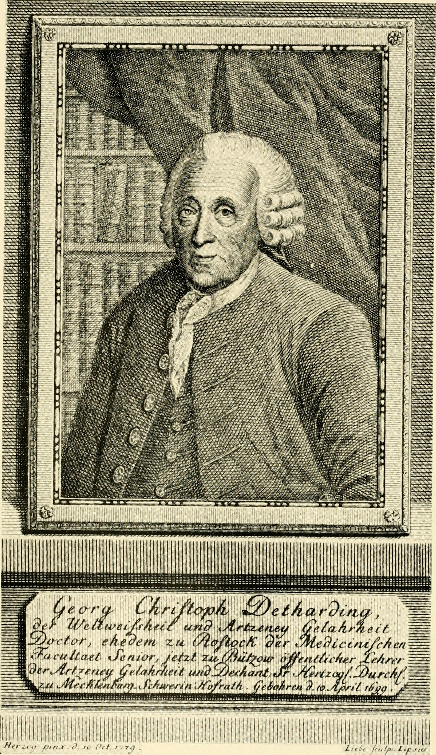 Title: Anatomische Hefte Year: 1918 (1910s) Authors: Subjects: Publisher: München [etc. J. F. Bergmann] Text Appearing Before Image: Anatomische Hefte. I. Abt. 165. Heft (55. Bd., H. 1), Tafel 14. Text Appearing After Image: Fig. 17. Georg- Christoph Detharding, 1699—1784, Herzoglicher Hofrat und Professor, hielt 1733-1760 zu Rostock, 1760—1784 zu Bützow anatomische Vorträge. Verlag von J. F. Bergmann in Wiesbaden.